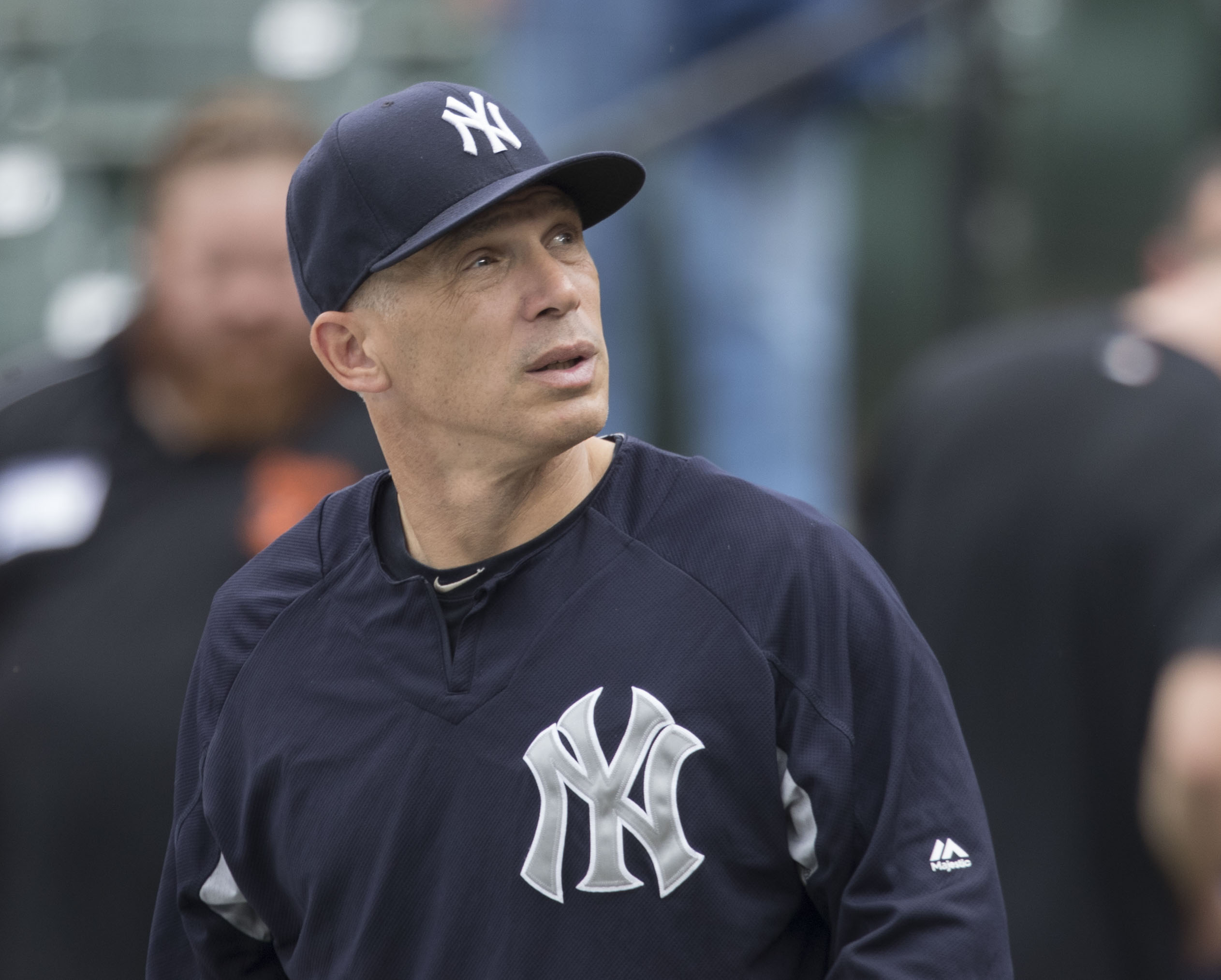 Yankees manager Joe Girardi at Oriole Park at Camden Yards in 2017.